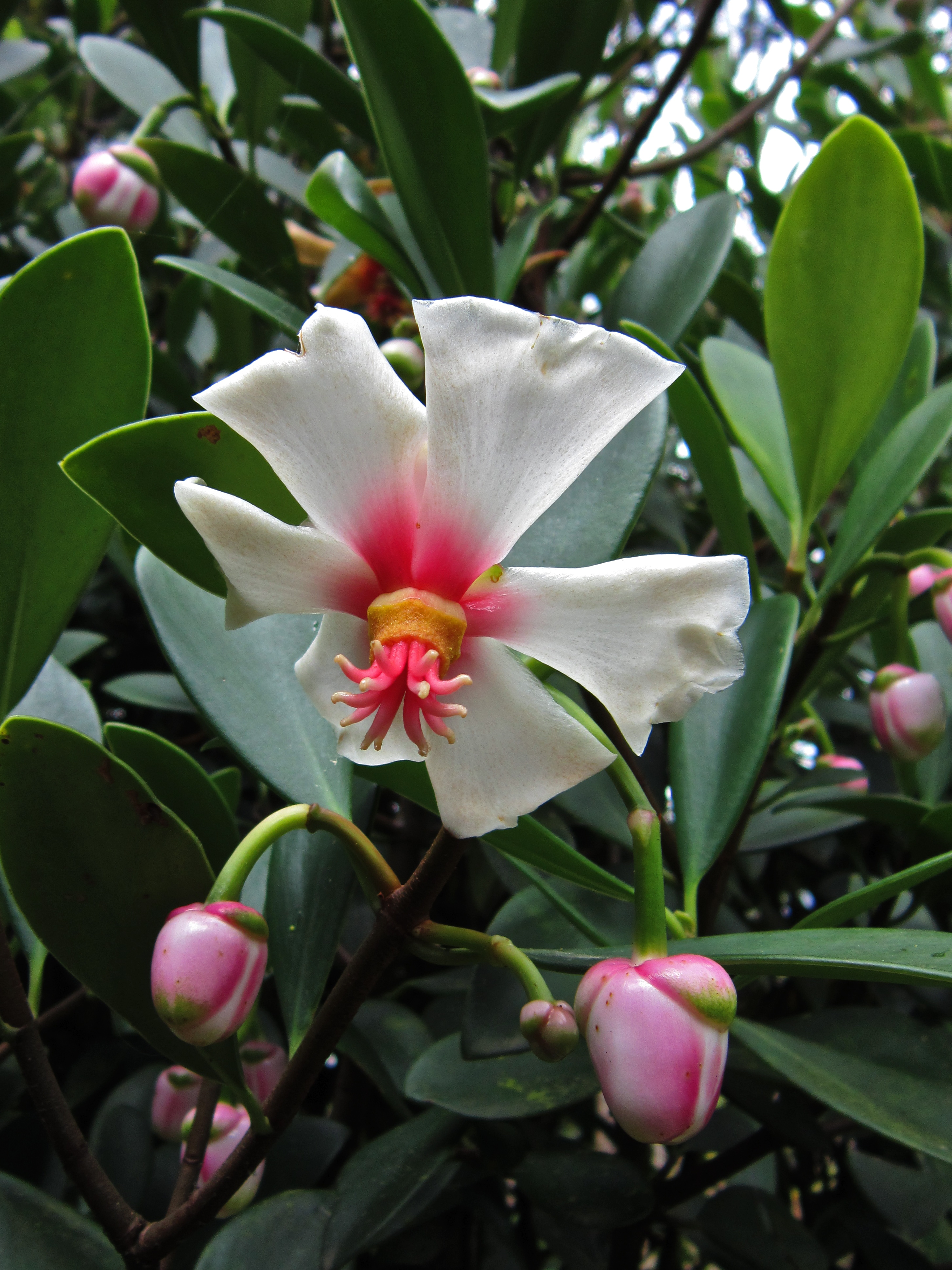 Clusia Braziliana, Clusia orthoneura Paul C. Standley, 1940 Family: Clusiaceae Brazilian Clusia, Porcelain Flower Origin: South America Very rare small shrub with waxy and thick narrow leaves and gorgeous flowers that look almost artificial. The flower stays on the plant for a few days. The shrub has naturally round shape and produces thick air-roots at the base of the stem. Blooms from late winter through spring and summer. Cold hardy to zone 9b. Slow growing, perfect container plant or can be gown as a specimen in a small garden. I found this strange plant in Salento, the coffee growing area of Colombia.